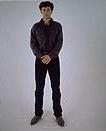 Portrait of Jonathan Richman by Elsa Dorfman